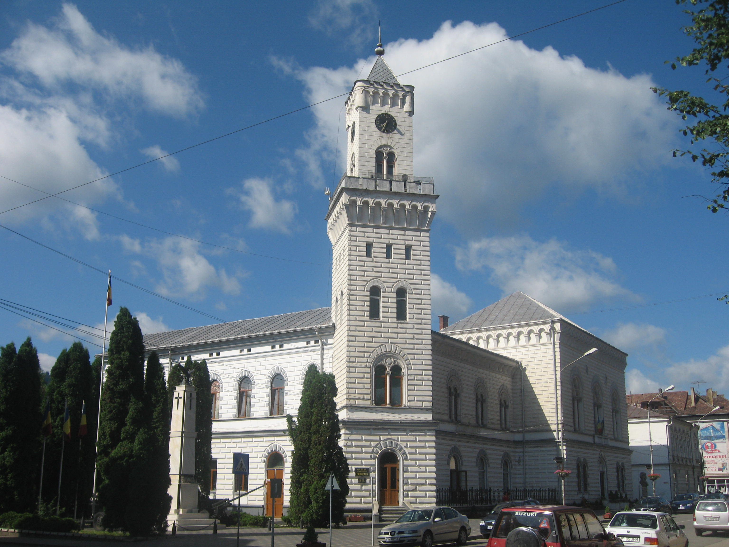 The City Hall of Vatra Dornei, Romania